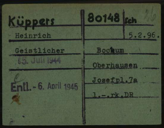 Registration card of Heinrich Küppers as a prisoner at Dachau Nazi Concentration Camp.